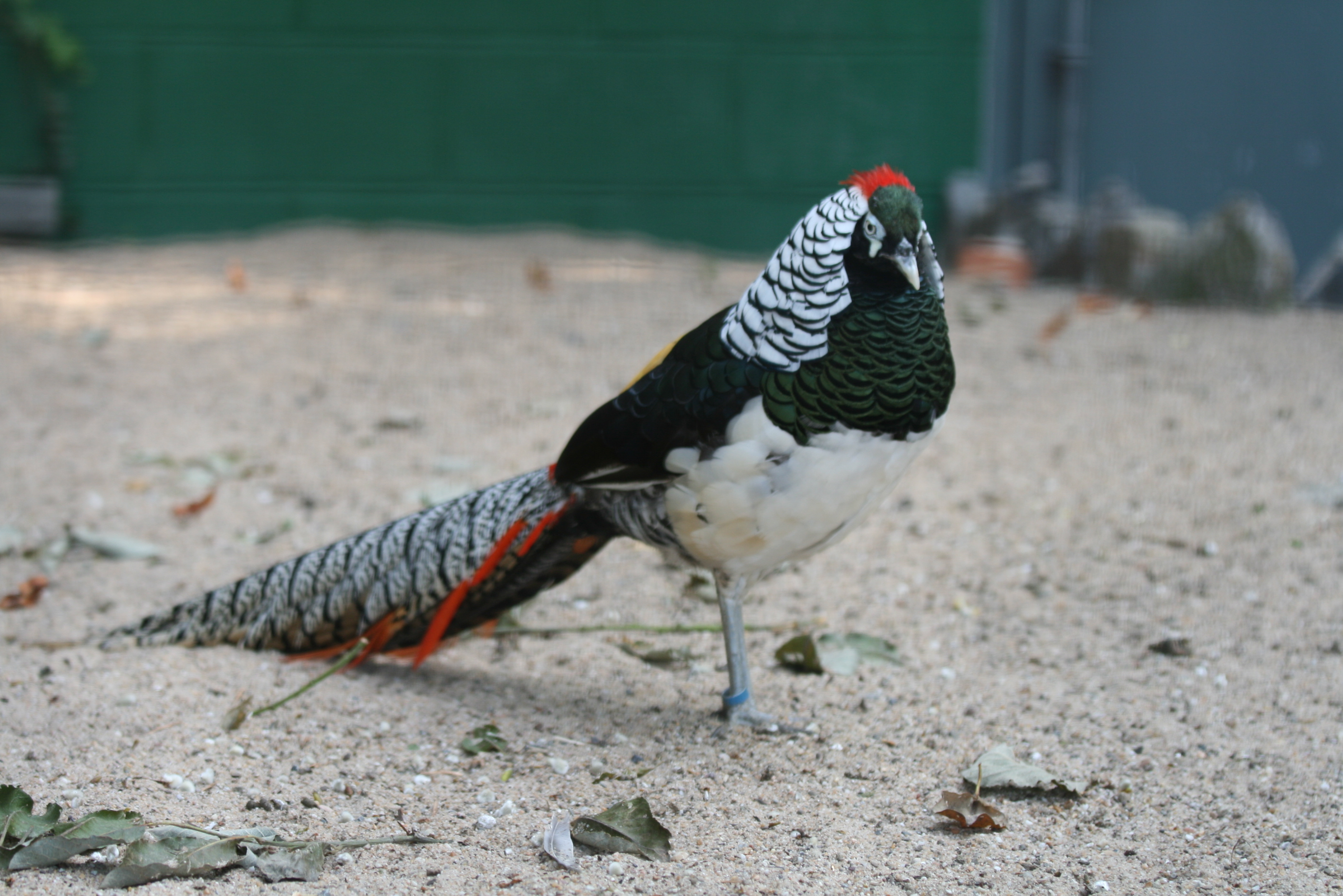 Lady Amherst's Pheasant (Chrysolophus amherstiae), Parc Paradisio, Hainaut, Belgium.